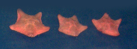 Asterina gibbosa, a cushion star, a starfish from the family Asterinidae